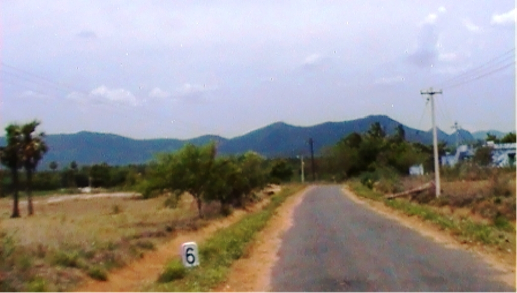 Azad road mountain look, Tamil Nadu